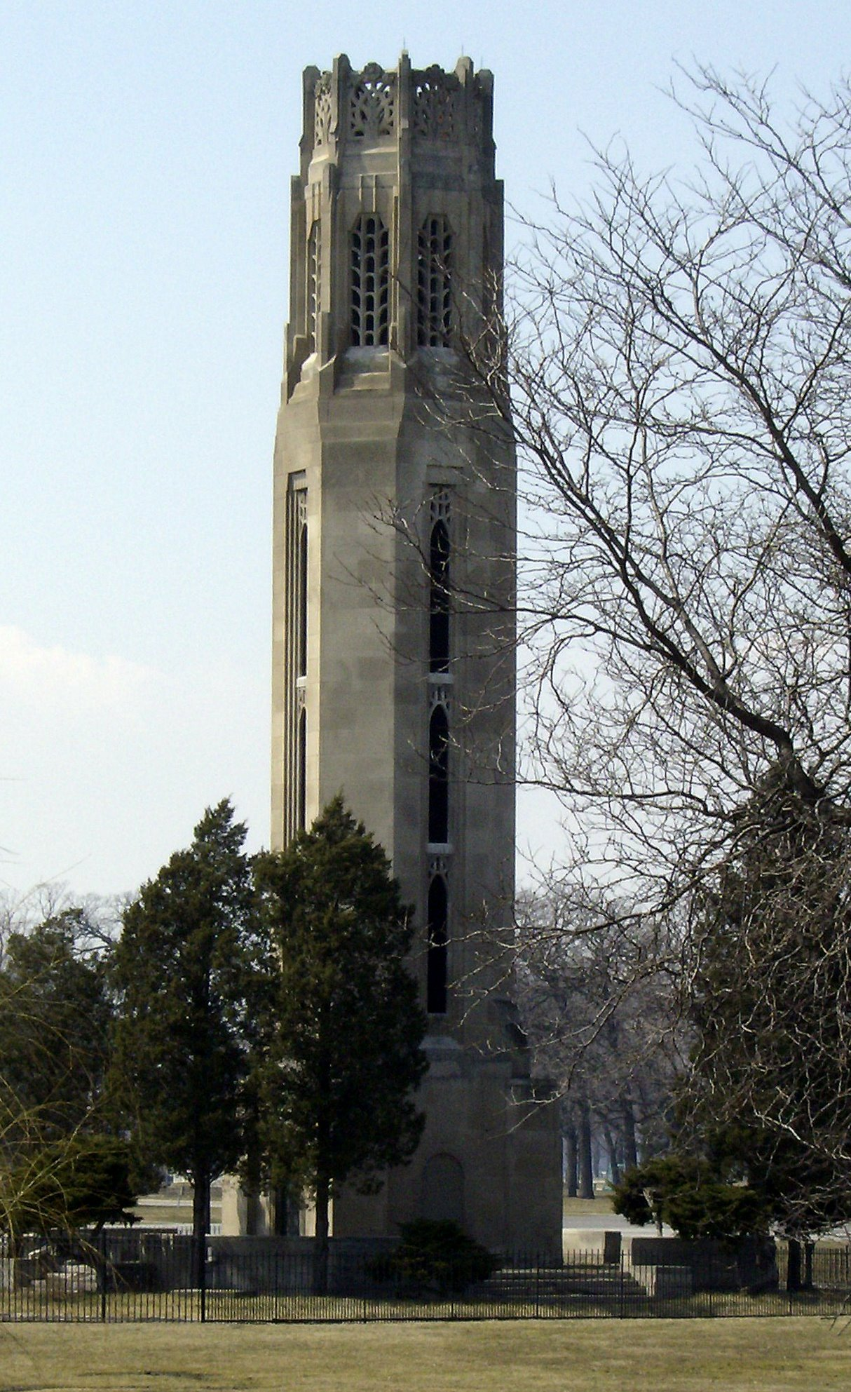 Carillon in Belle Isle Park, Detroit, Michigan, United States.